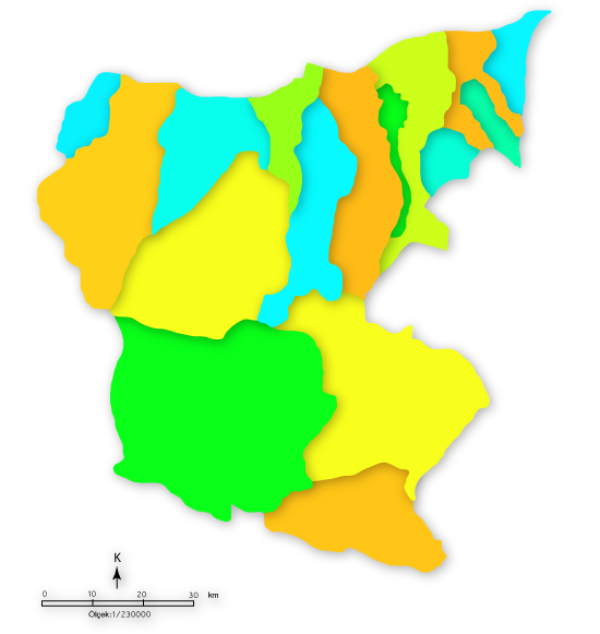 Map of regional administrative divisions of Giresun